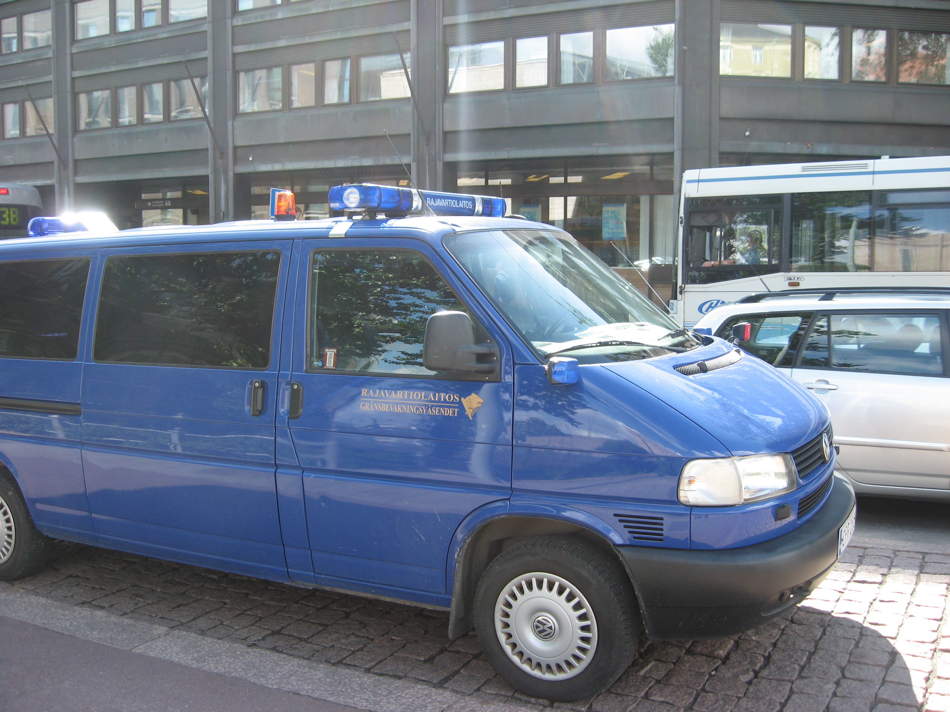 Finnish Border Guard van